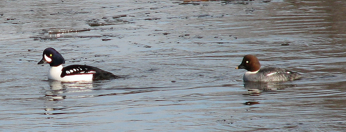 Male and female Barrow's Goldeneyes (Bucephala islandica) on Rideau River, Ottawa, Ontario